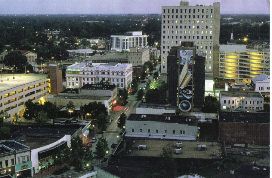 Aerial shot of downtown Lafayette, Louisiana, featuring a prominent mural by local artist Robert Dafford.